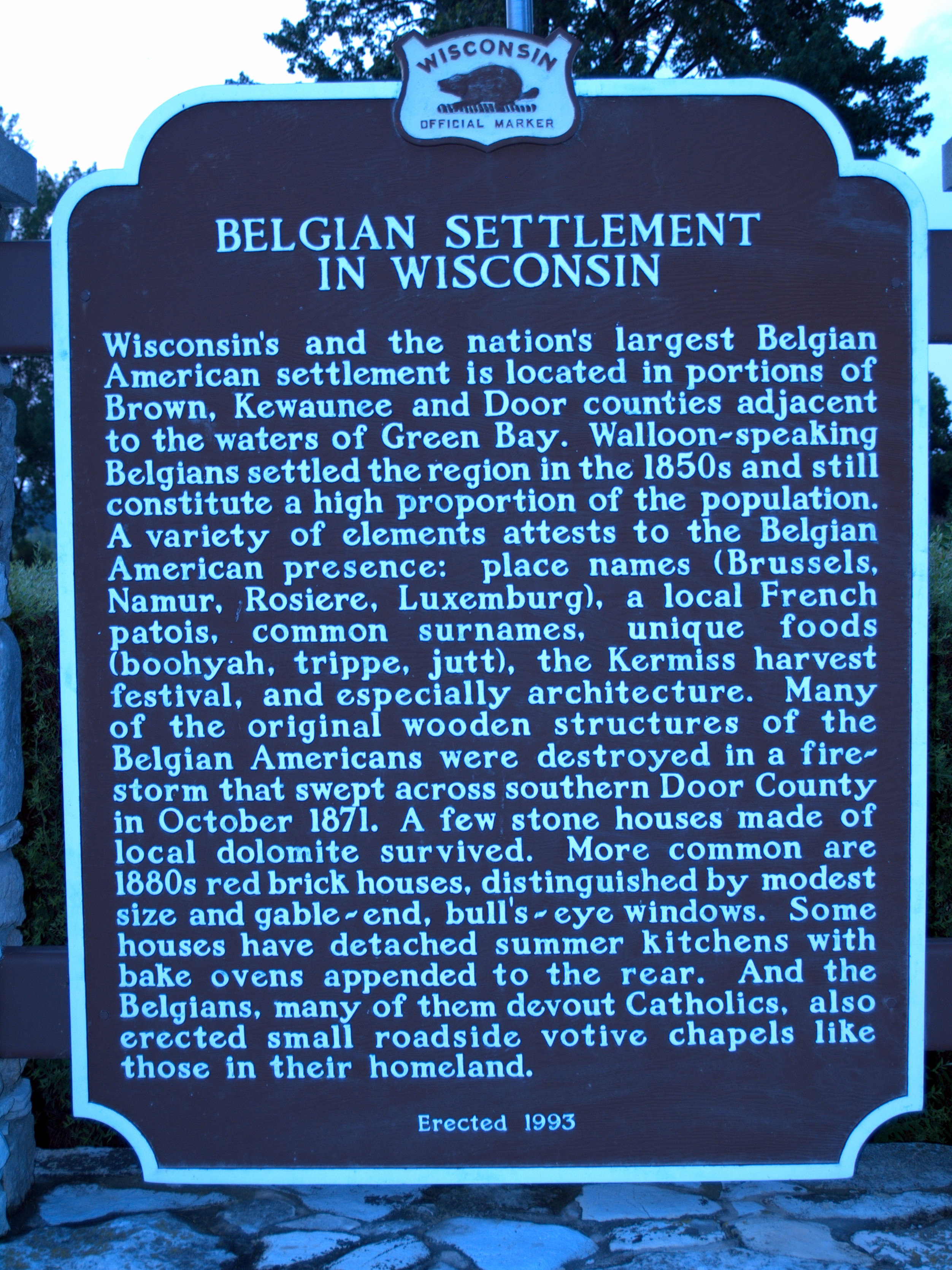 Historical Marker